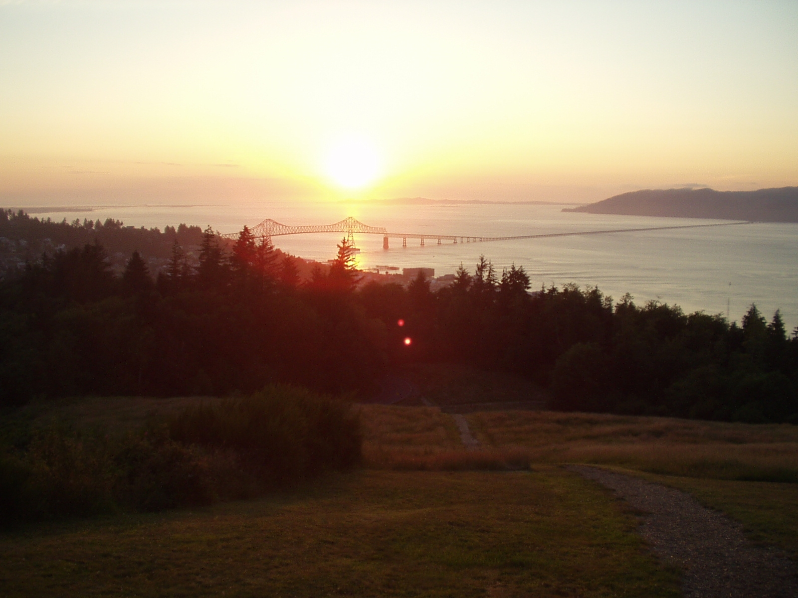 View from the Astoria Column to the mouth of the Columbia River.